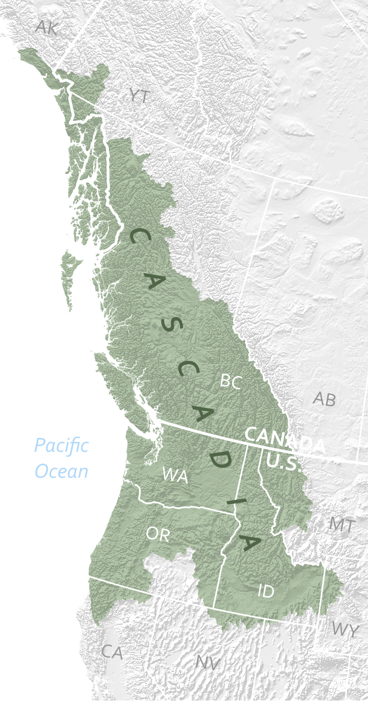 Projection: US National Atlas Equal Area Sources: Commission for Environmental Cooperation, Natural Earth, QGIS